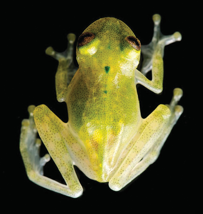 Hyalinobatrachium yaku in life. Adult male, MZUTI 5001, holotype, in dorsal view.